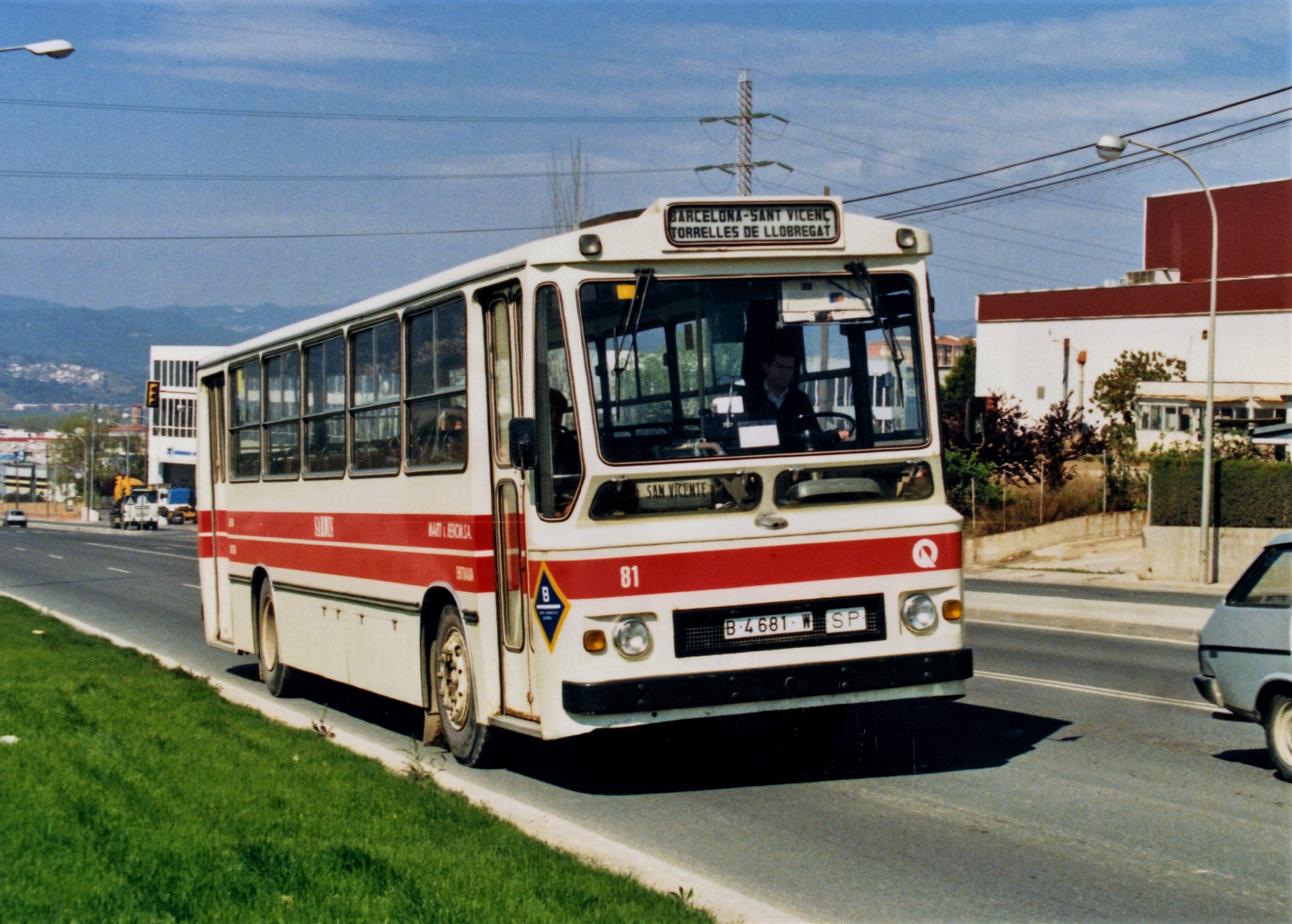 The bus number 81 of Sarbus, assigned to Transportes Interurbanos S.A., serving on the line from Sant Vicenç dels Horts to Barcelona, passing through Sant Just Desvern.